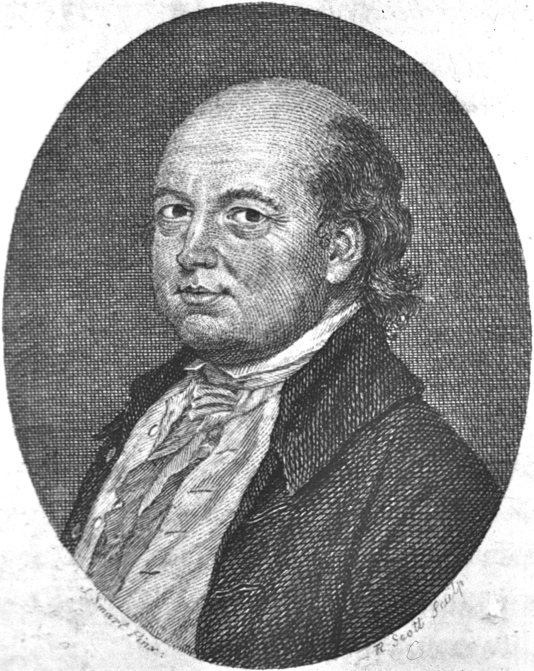 Portrait of James Anderson (1738-1809) M.D.